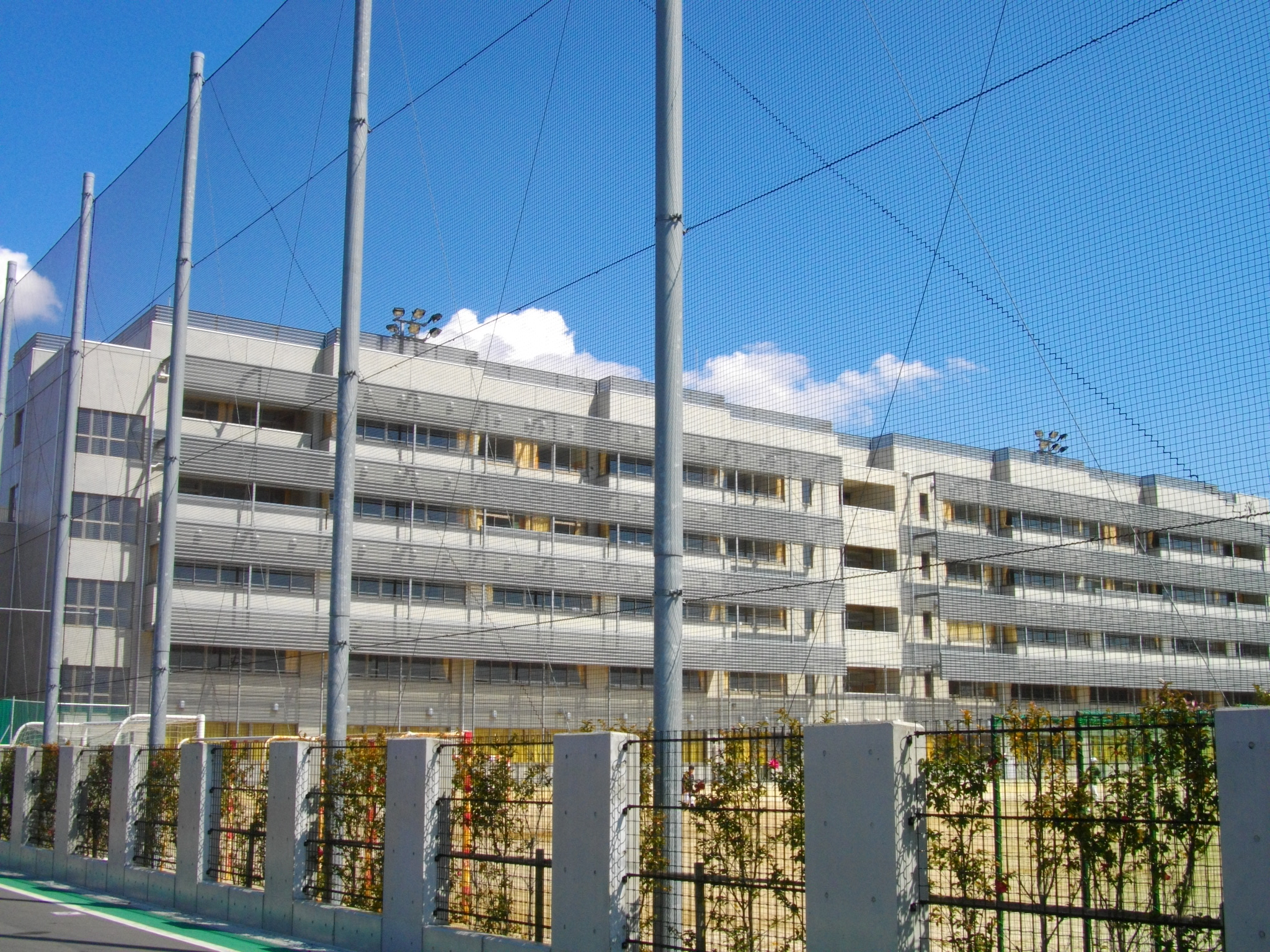 Hinode Gakuen School (Chiba)